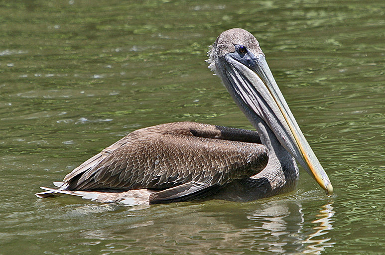 Juvenile brown pelican (Pelecanus occidentalis)